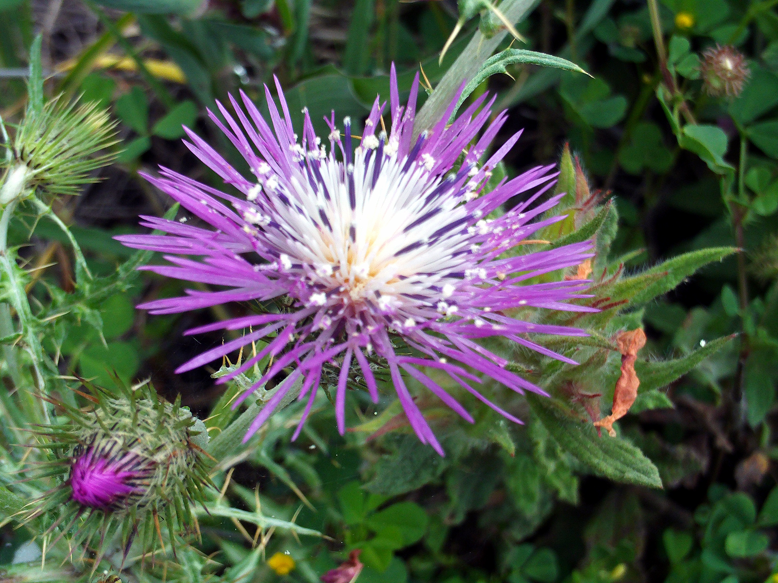 Galactites tomentosa flowers close up in Dehesa Boyal de Puertollano, Spain